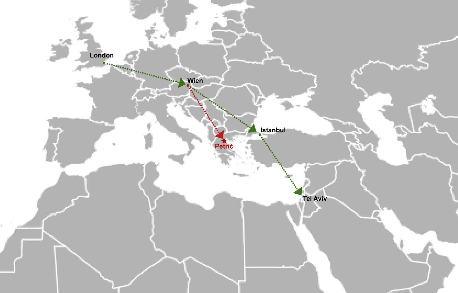 Route of Flight El Al 402, shot down on July, 27th 1955 neat Petrič, Bulgaria: green lines show the estimated route; red line shows the actual final route of the flight.